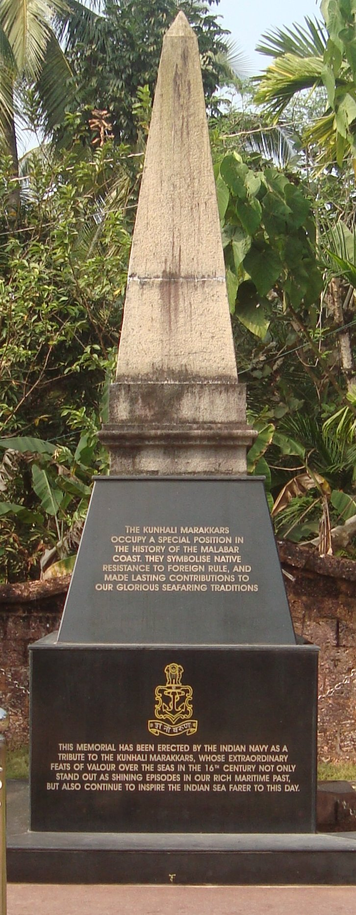 Kunhali Marakkar Memorial erected by the Indian Navy at Kottakkal, Vadakara